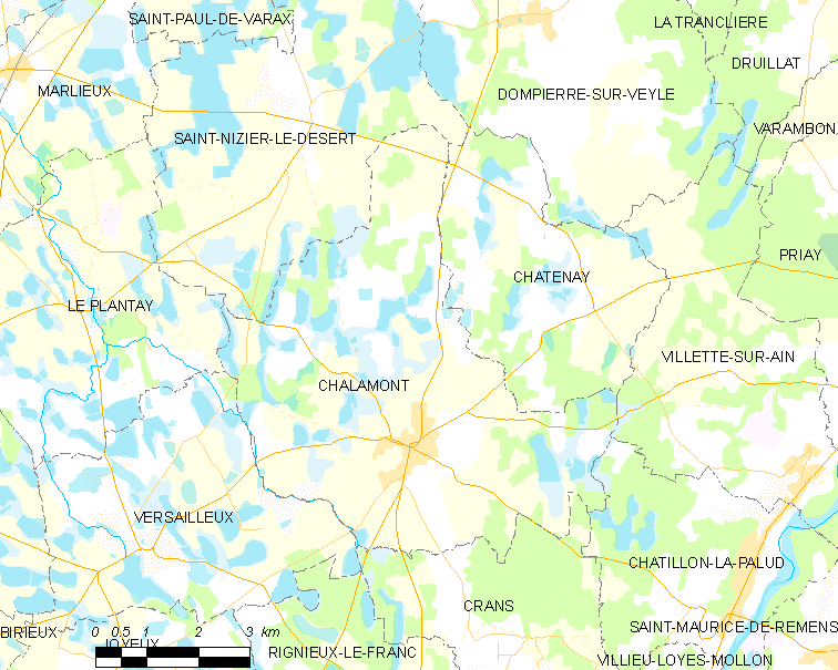 Map of French commune: Chalamont Map commune FR insee code 01074.png